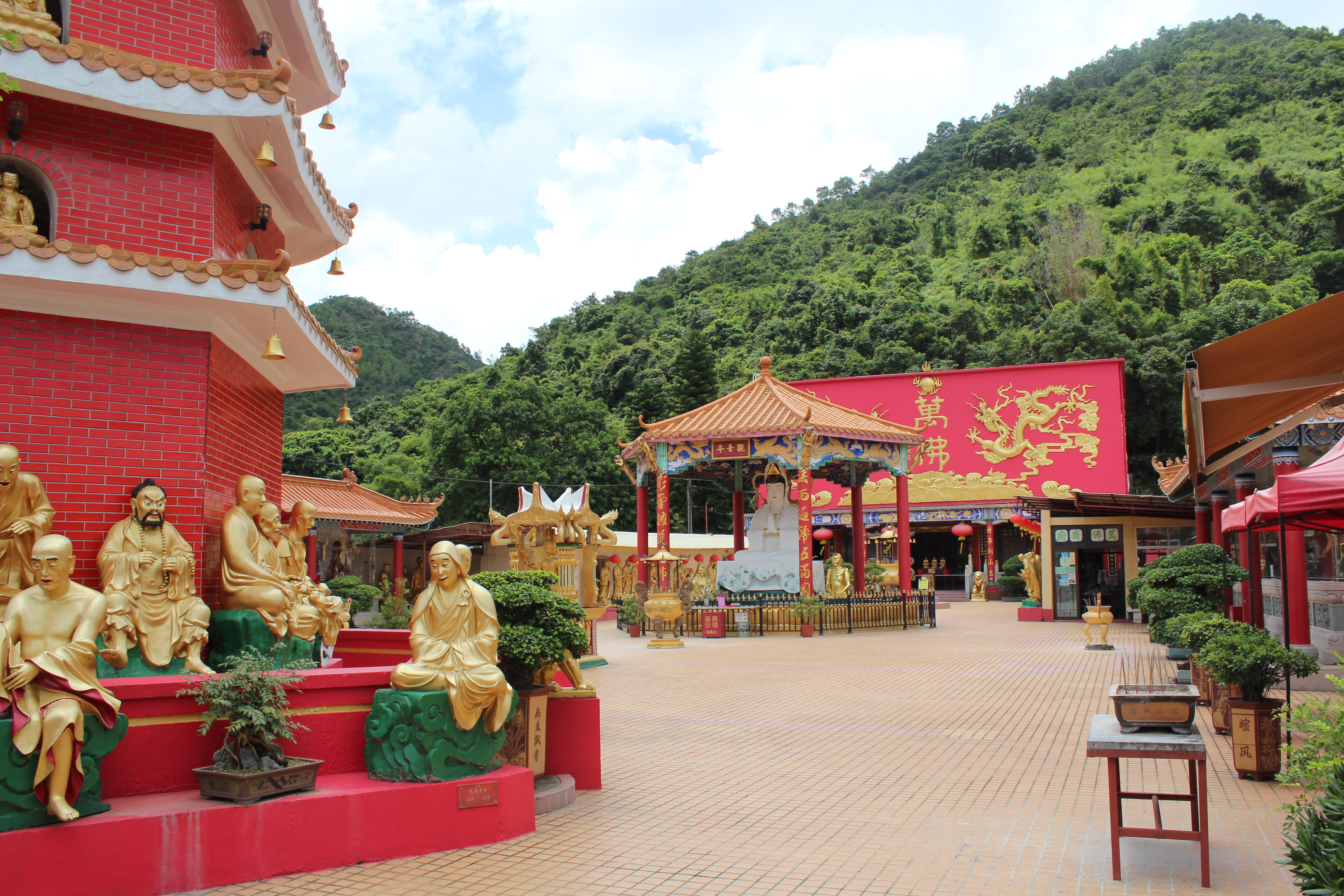 Ten Thousands Buddhas Monastery, Hong Kong